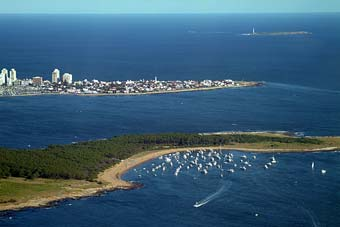 Gorriti Island, Península de Punta del Este and Isla de Lobos.